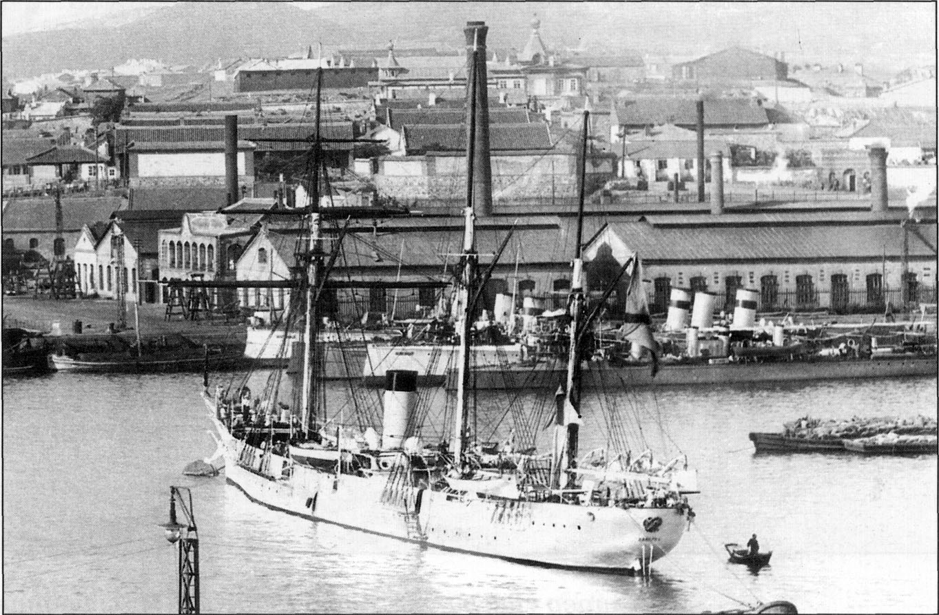 Imperial Russian cruiser Zabiyaka in Port Arthur.